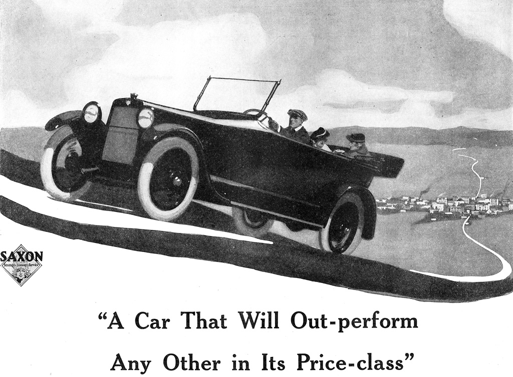 Advertisement for the Saxon Six ran in the November 25, 1916 Country Gentleman. Manufactured in Detroit from 1914 to 1922,Saxon was one of the top 10 autos in sales, selling more than 27,000 units in 1916. Saxons were powered by 4 and 6-cylinder Continental engines.